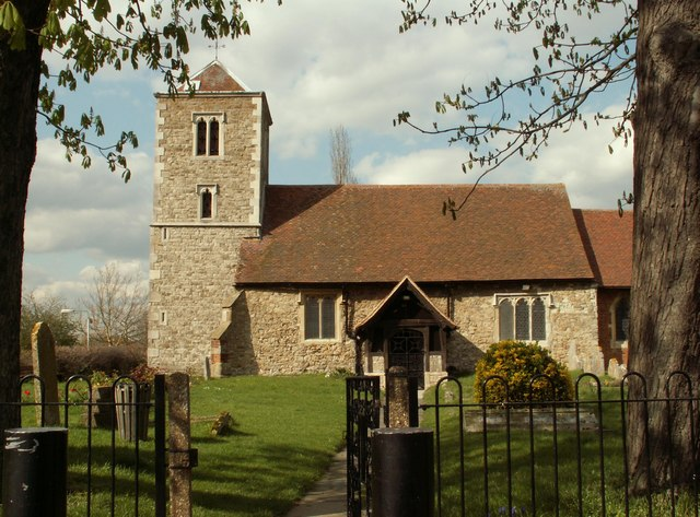 Nave and west tower of Holy Cross parish church, Basildon, Essex, seen from the south. This is the parish church of the original village of Basildon. The nave is 14th century, the tower was built about 1500 and the chancel (behind the tree on the right) was rebuilt in brick in 1597.